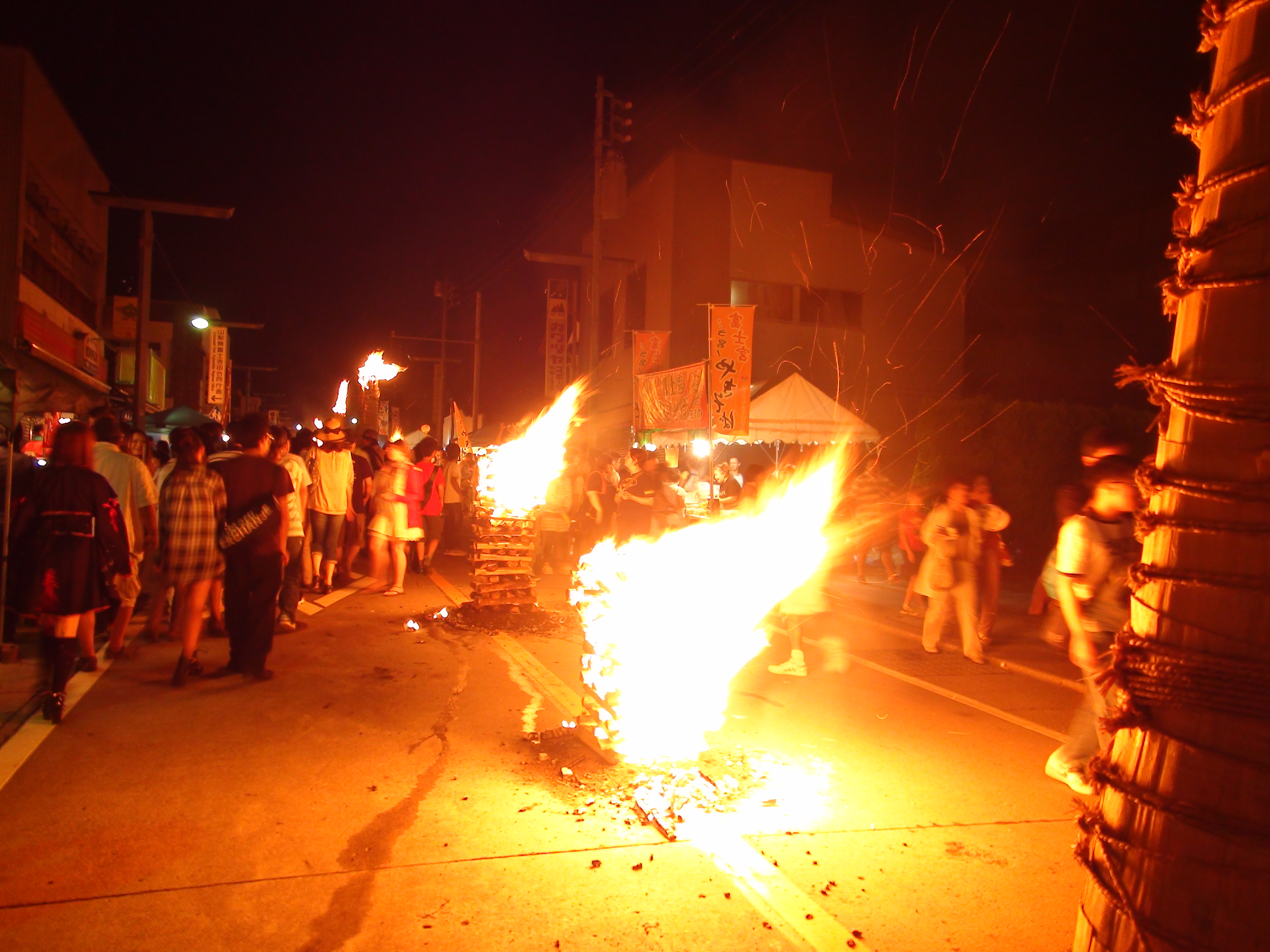 Torches burning Yoshida Fire Festival.